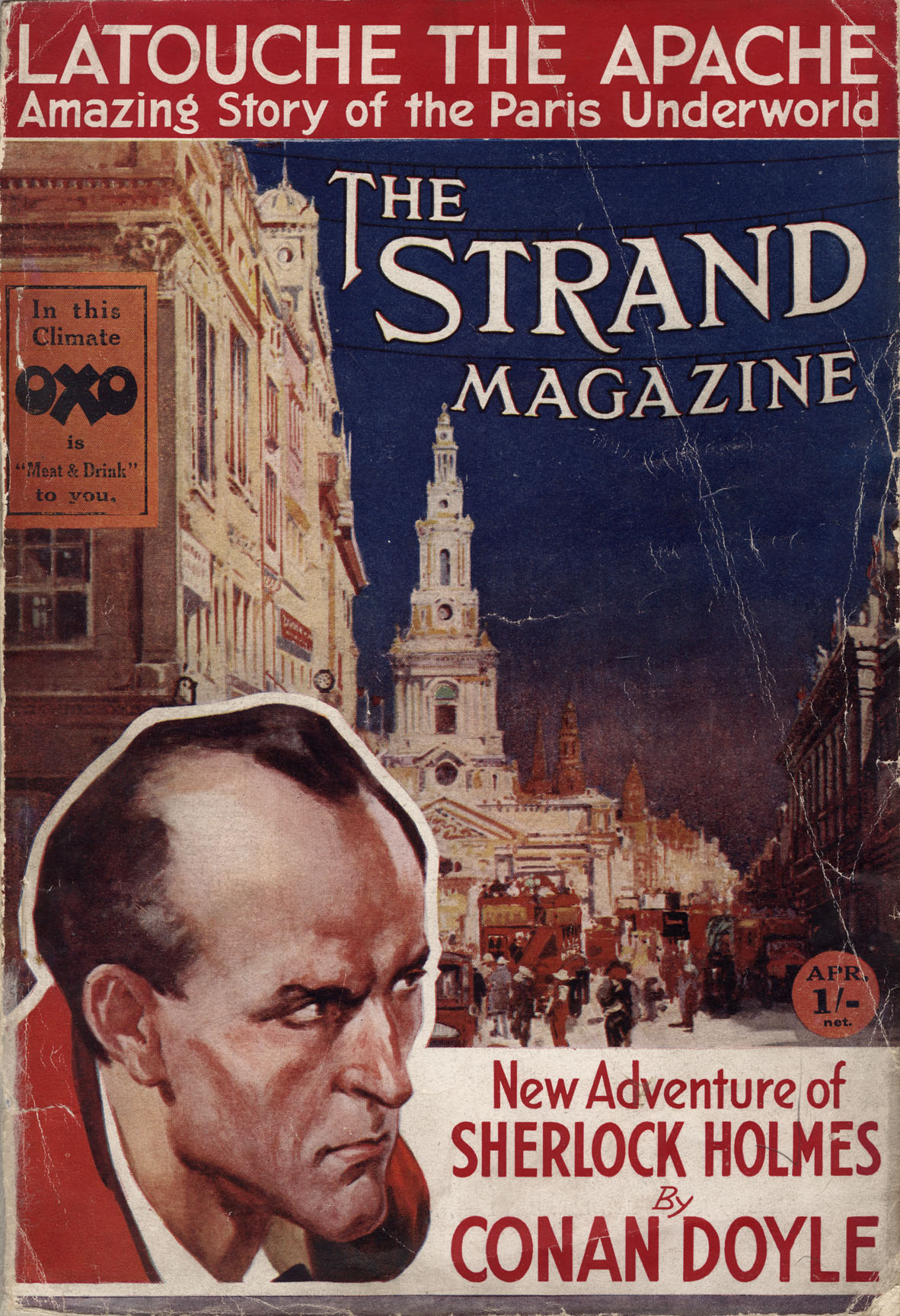 Title: The Strand Magazine, vol. 73, April 1927 Creator: Arthur Conan Doyle Date: 1927 Published: London: George Newnes, Ltd. Identifier: 823.91 D598.66; L7_the strand april 1927 Format: Magazine Rights: Public domain Courtesy: Toronto Public Library Cover of The Strand Magazine featuring the publication of the last Sherlock Holmes story written by Arthur Conan Doyle: "The Adventure of Shoscombe Old Place". This image was part of the Adventures with Sherlock Holmes show at the TD Gallery (Toronto Reference Library, 789 Yonge St. M4W 2G8), on display January 5 to March 10, 2013. This image is available from the Toronto Public Library under the reference number 823.91 D598.66; L7_the strand april 1927 This tag does not indicate the copyright status of the attached work. A normal copyright tag is still required. See Commons:Licensing for more information. English | français | +/−